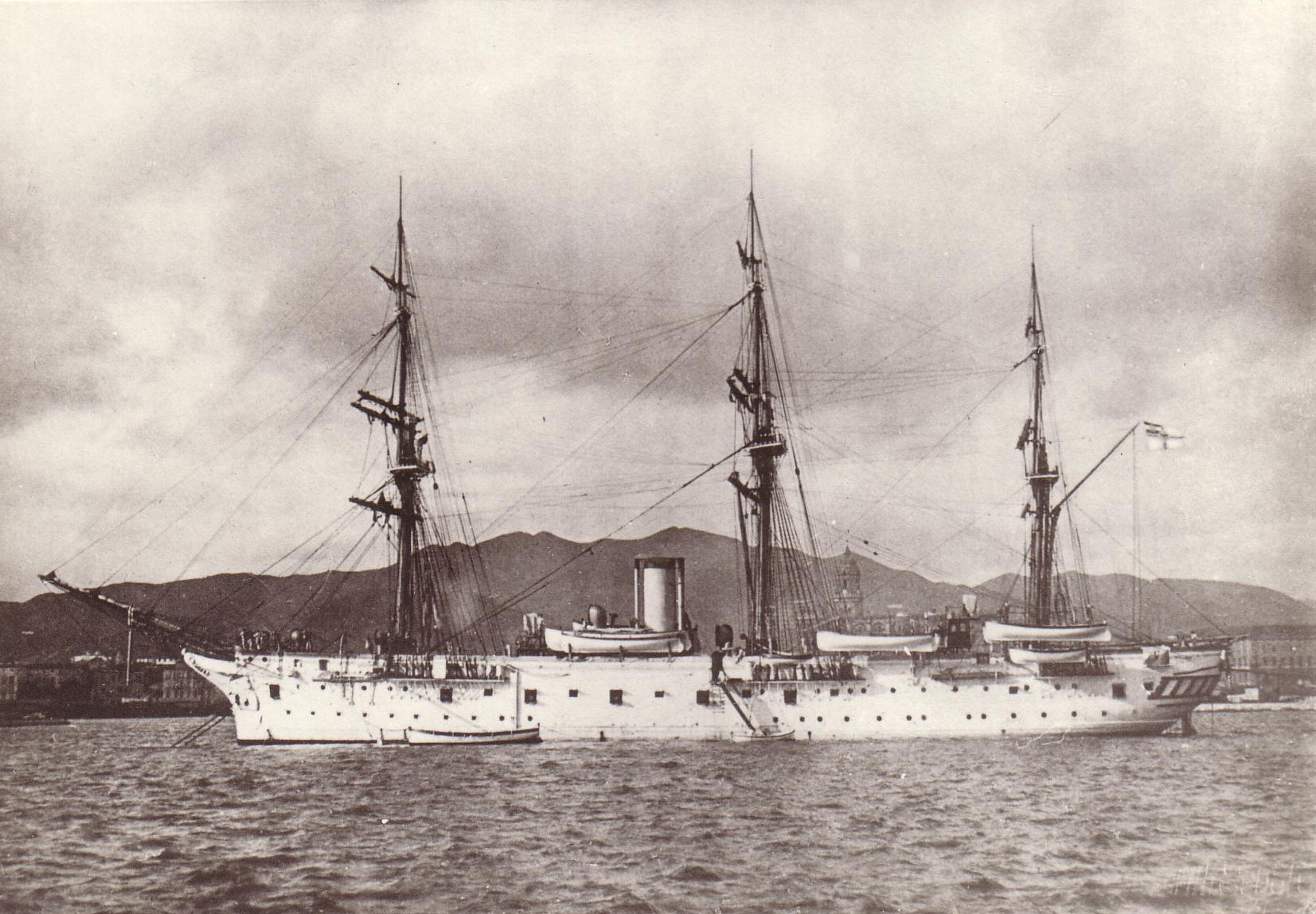 German corvette Gneisenau (1880-1900)